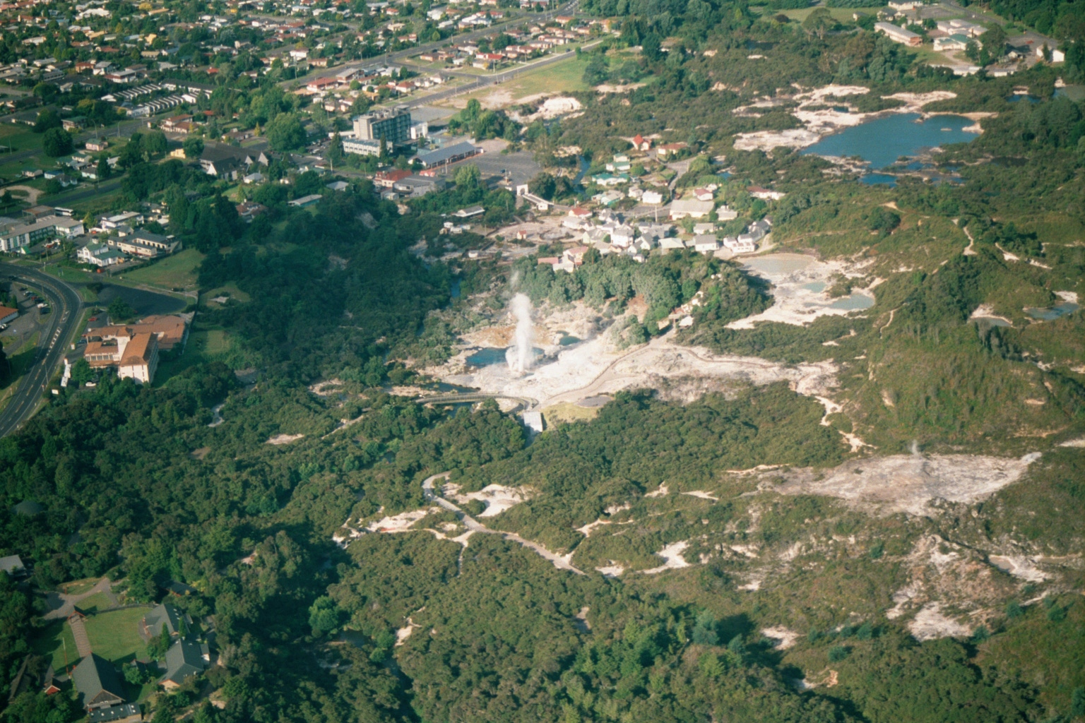 Aerial view of Whakarewarewa, Rotorua, New Zealand. Pohutu Geyser is erupting in the center, the Maori Arts & Crafts Institute (which controls access to the geothermal area) is in the bottom left; and the outskirts of Rotorua are in the top left. Taken during a seaplane ride out of Rotorua.